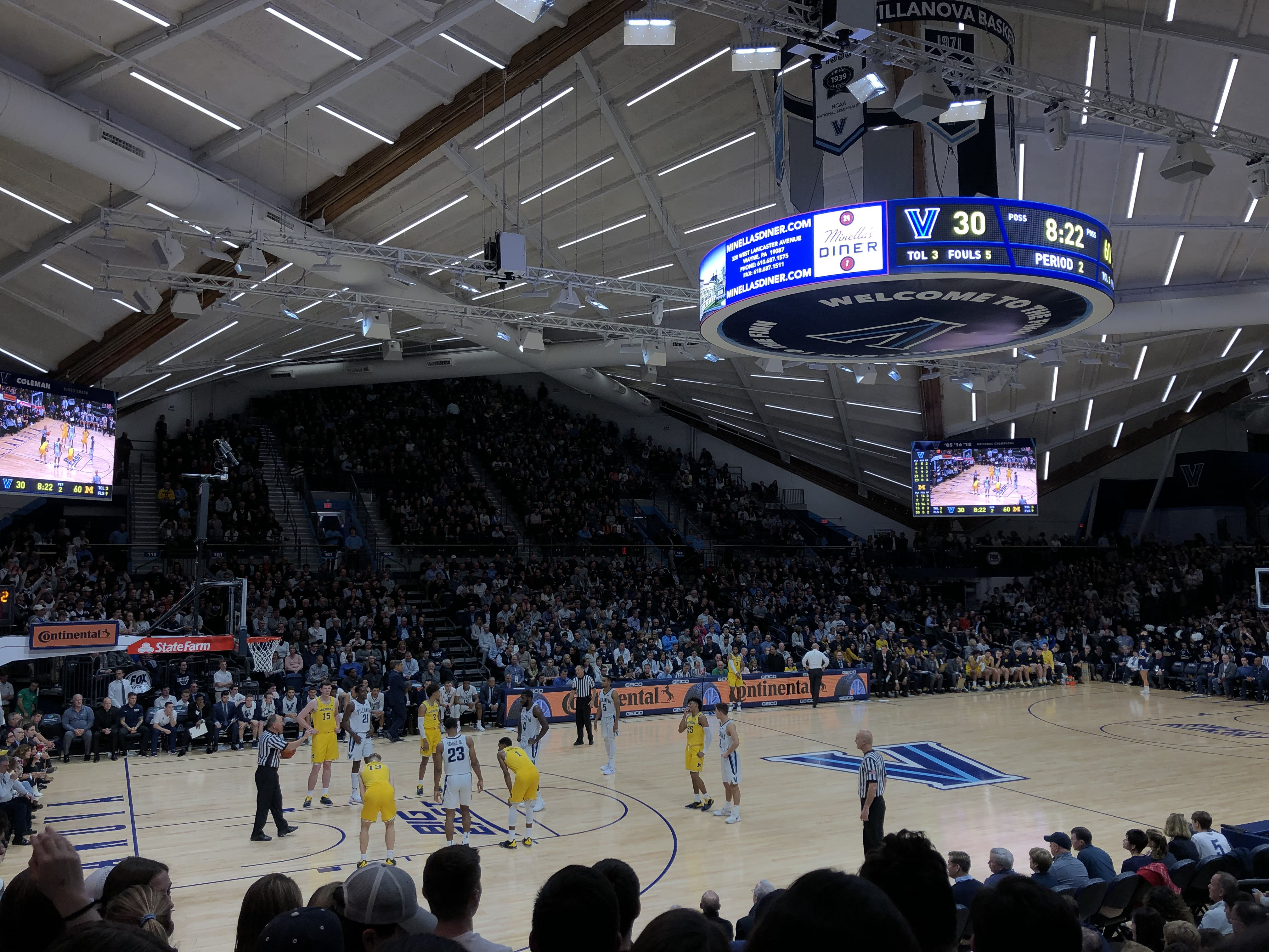 The Finneran Pavilion during a Villanova basketball game vs. Michigan in November 2018.